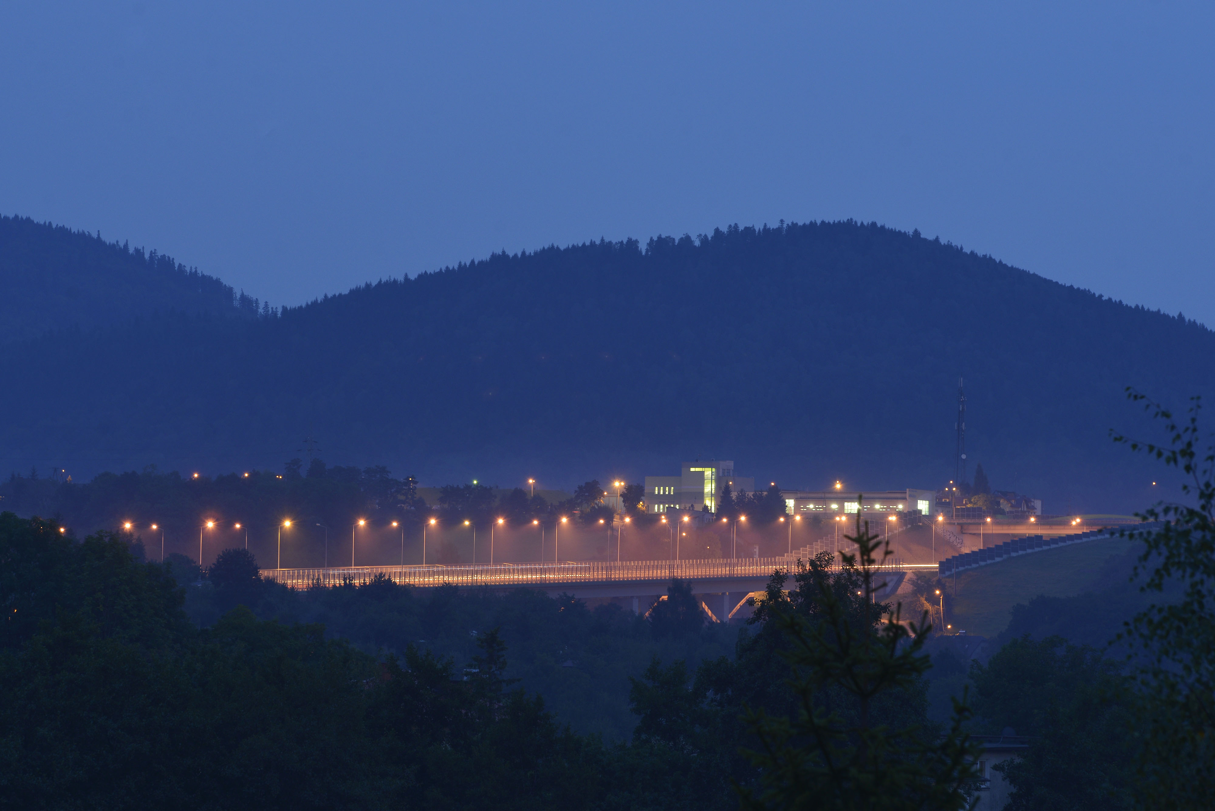 Bielsko-Biala city, part of the north-east ring road between Lipnik and Straconka